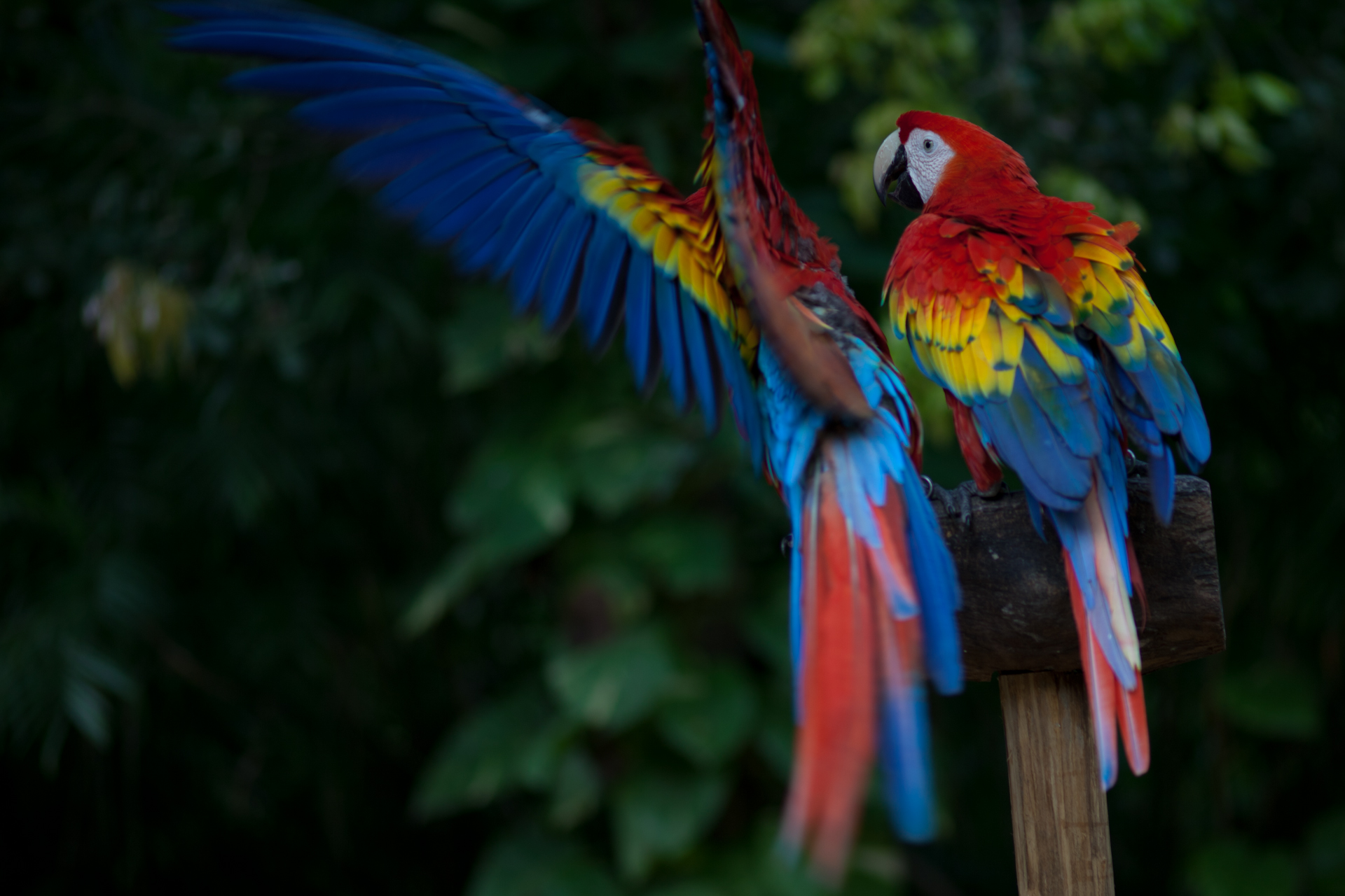 Chetumal-Puerto Juarez Federal Highway, Km. 282, 77710 Solidaridad, Quintana Roo, Mexico. Camera: Canon EOS 5D Mark II Lens: Zeiss Makro-Planar T* 2/100 ZE 0 ISO: 50 Licensing